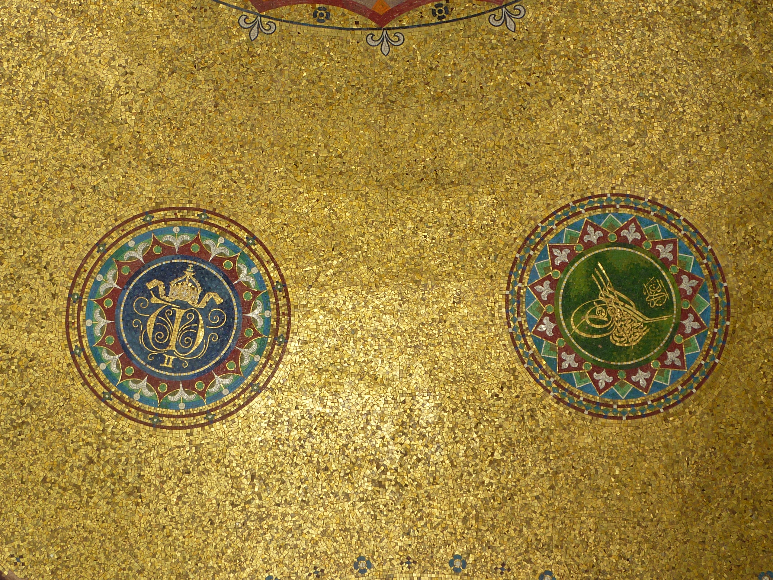 The German Fountain (Alman Çeşmesi) in downtown Istanbul.